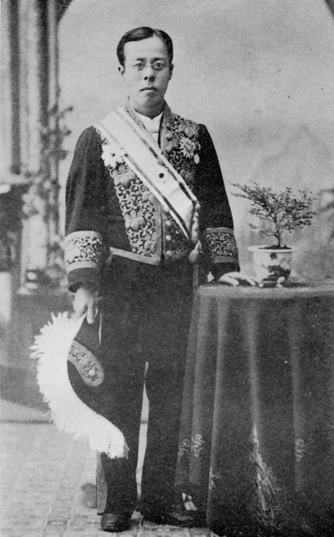 Rinshō Mitsukuri, taken in April 1891.